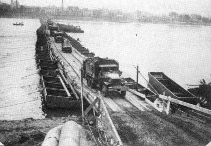 Pontoon bridge built by the 51st Combat Engineers across the Rhine, upstream from the Ludendorff Bridge at Remagen, between Kripp and Linz.